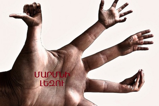 Մարմնի լեզու